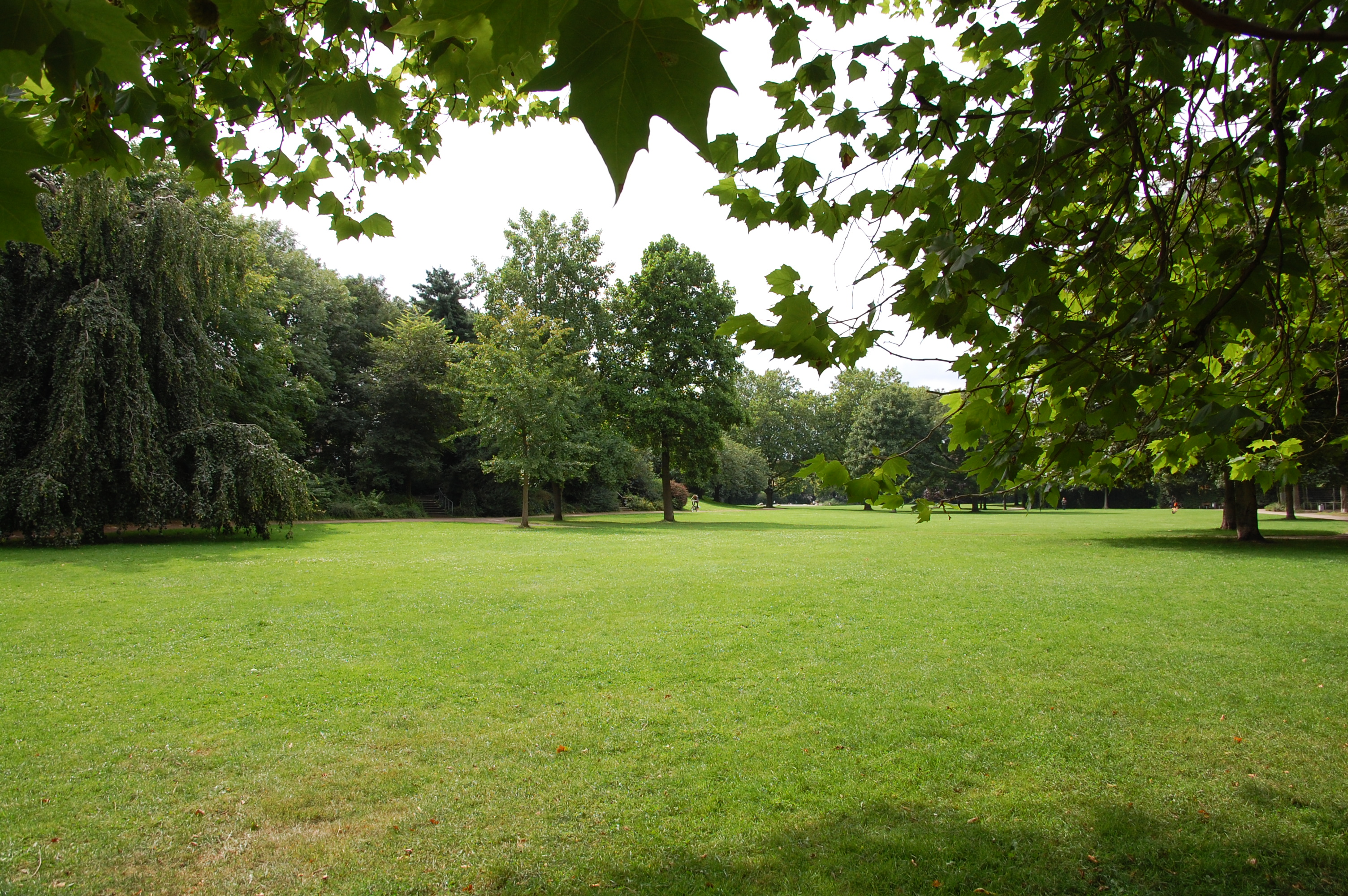 The Südpark in the center of Münster.